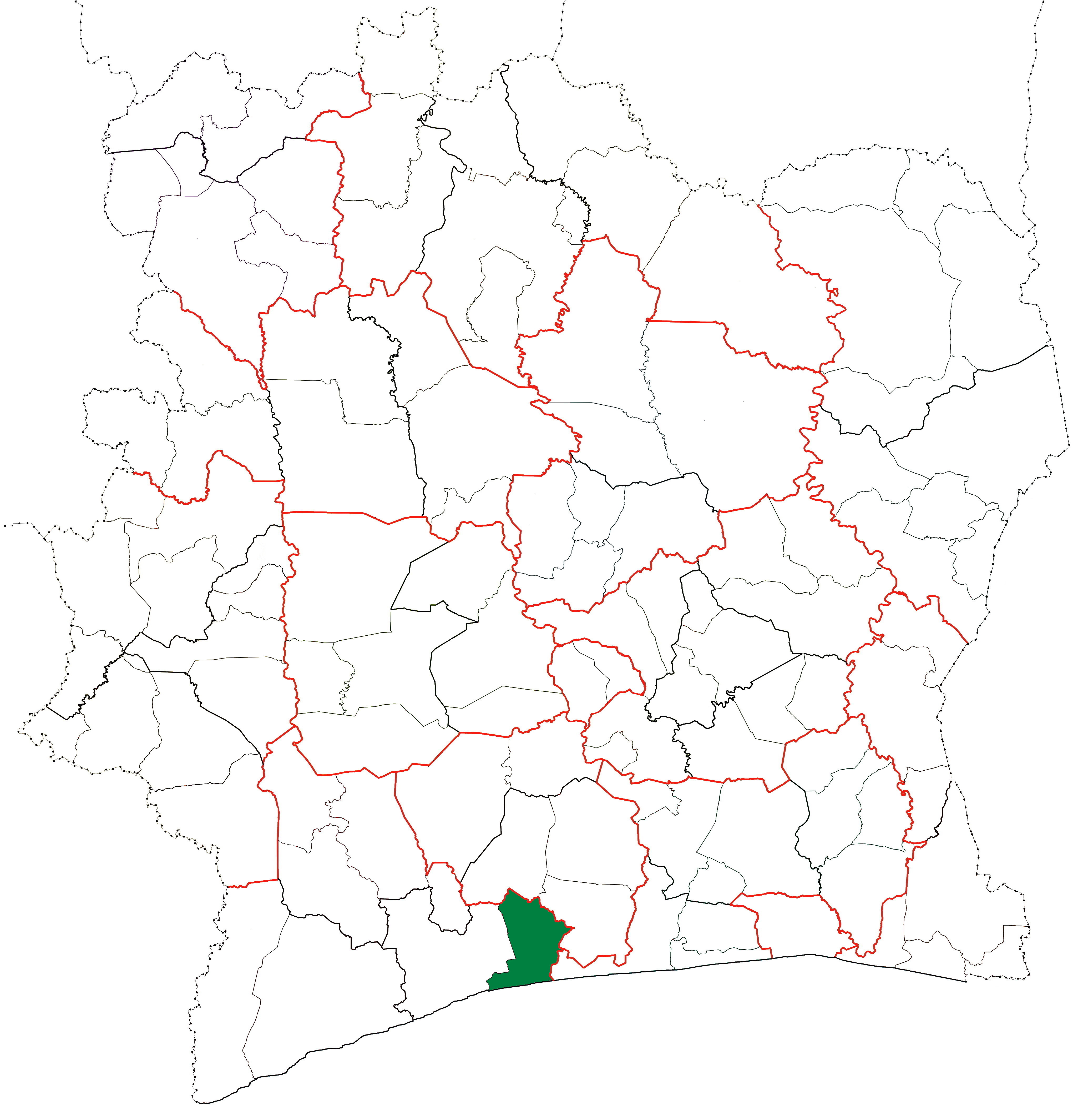 Locator map for Fresco Department in Côte d'Ivoire.